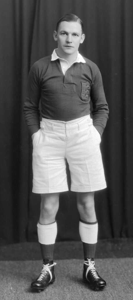 H Poole, member of the British Lions rugby union team